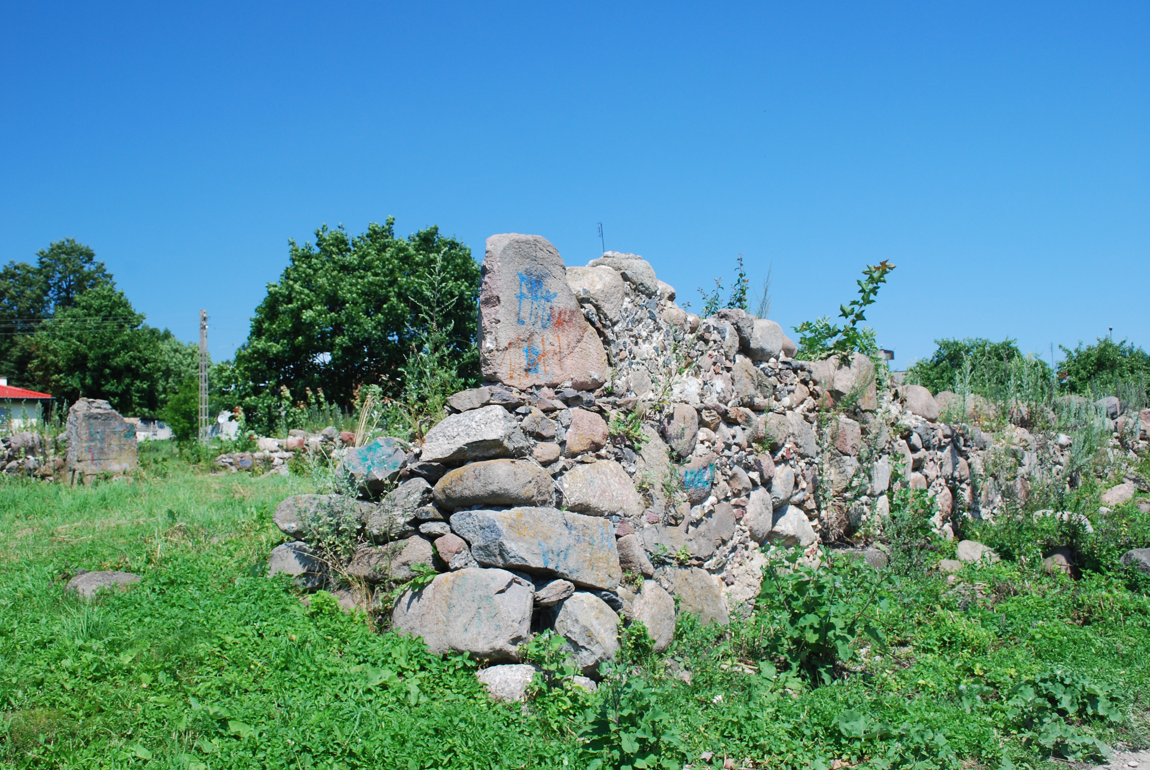 This photo from Podlaskie Voievodeship was taken during Polish Wikiexpedition 2009 set up by Wikimedia Polska Association. The making of this document was supported by Wikimedia Polska. Ruiny Wielkiej Synagogi w Krynkach